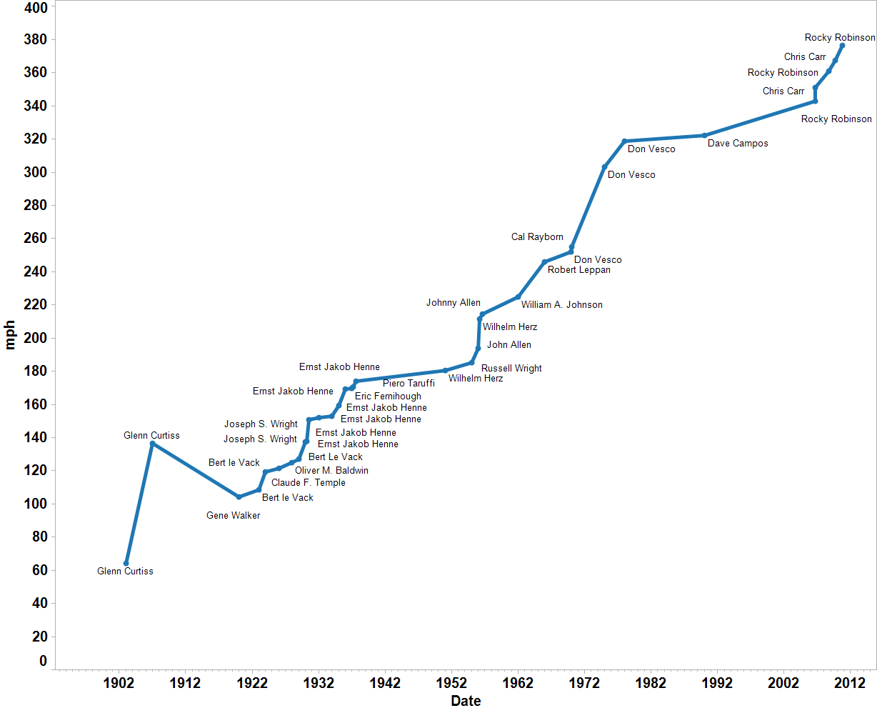 Graph of Motorcycle land-speed record. Created with Tableau